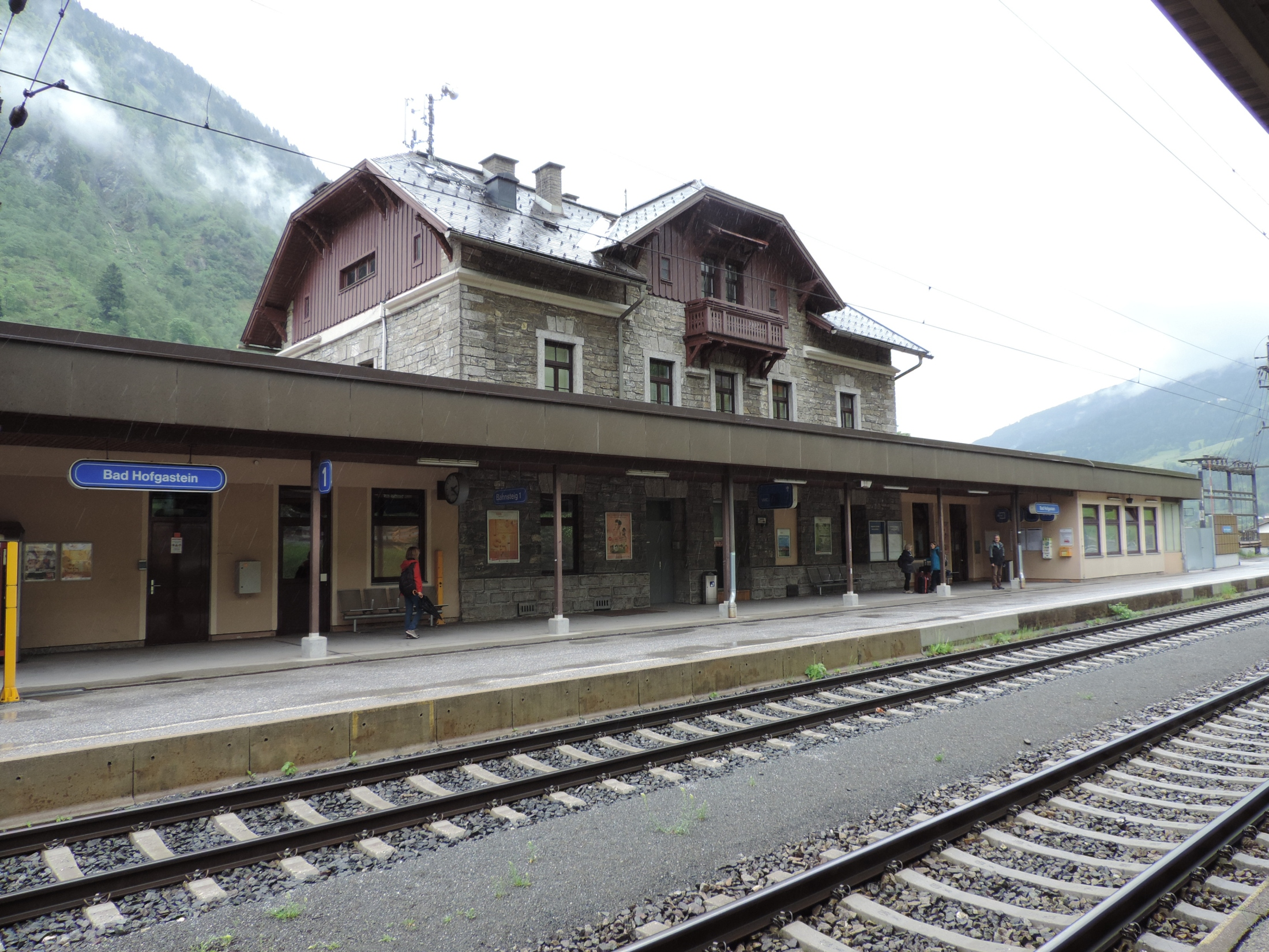 train station Bad Hofgastein in Salzburg